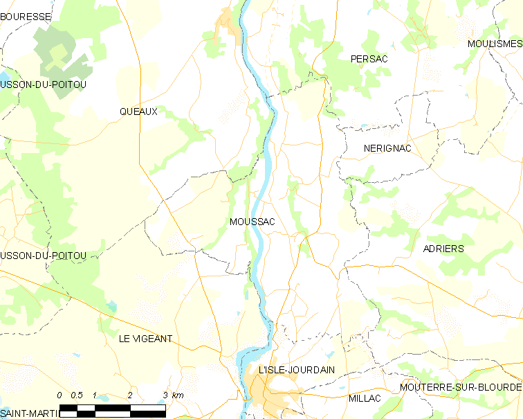 Map of French municipality Moussac